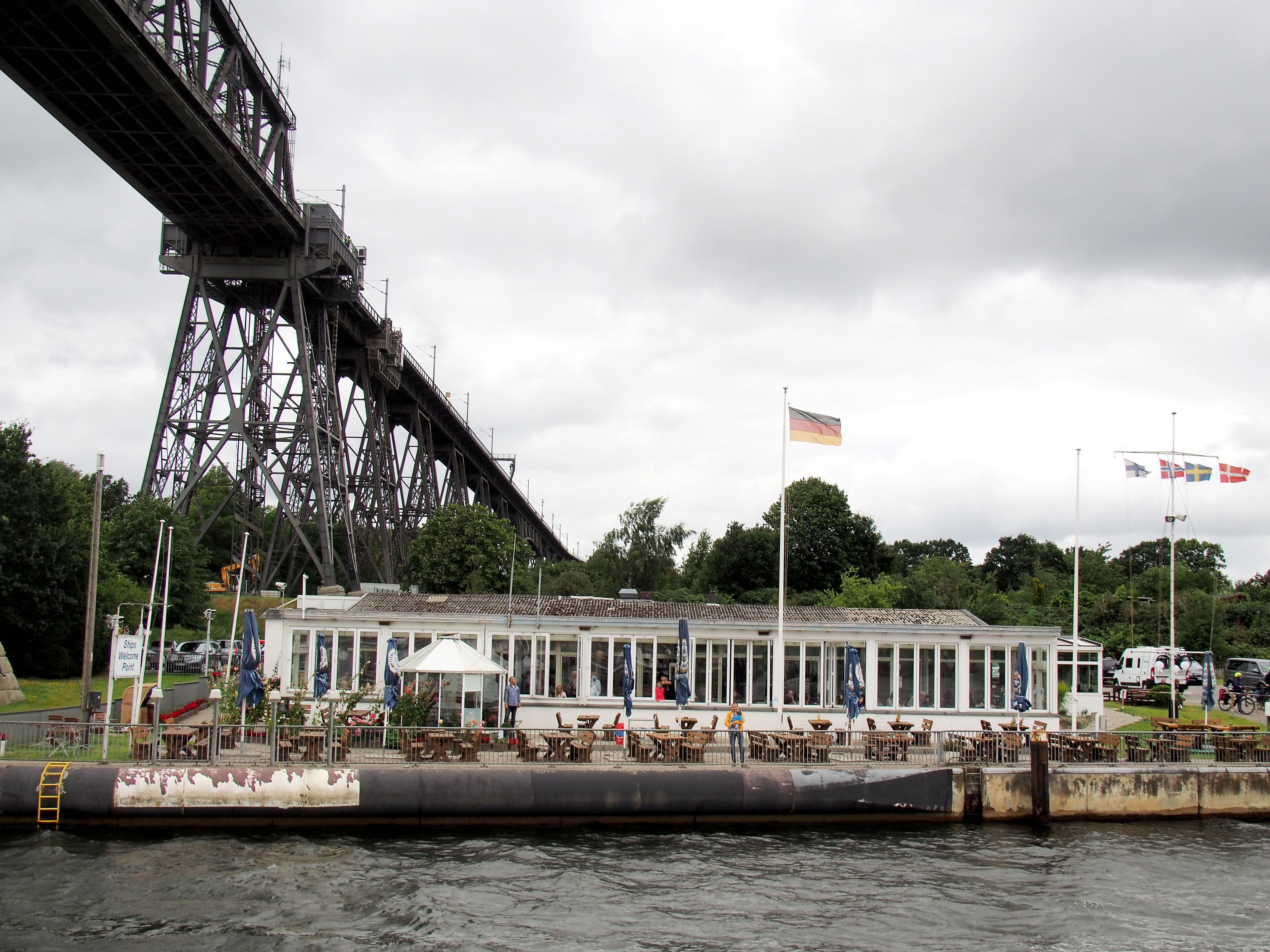 Ships Welcome Point Rendsburg Kiel Canal